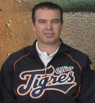 Reception of the team 'Tigres de Quintana Roo' champions of the Mexican Baseball League Season 2013. Official Residence of Los Pinos, Mexico City. December 6, 2013